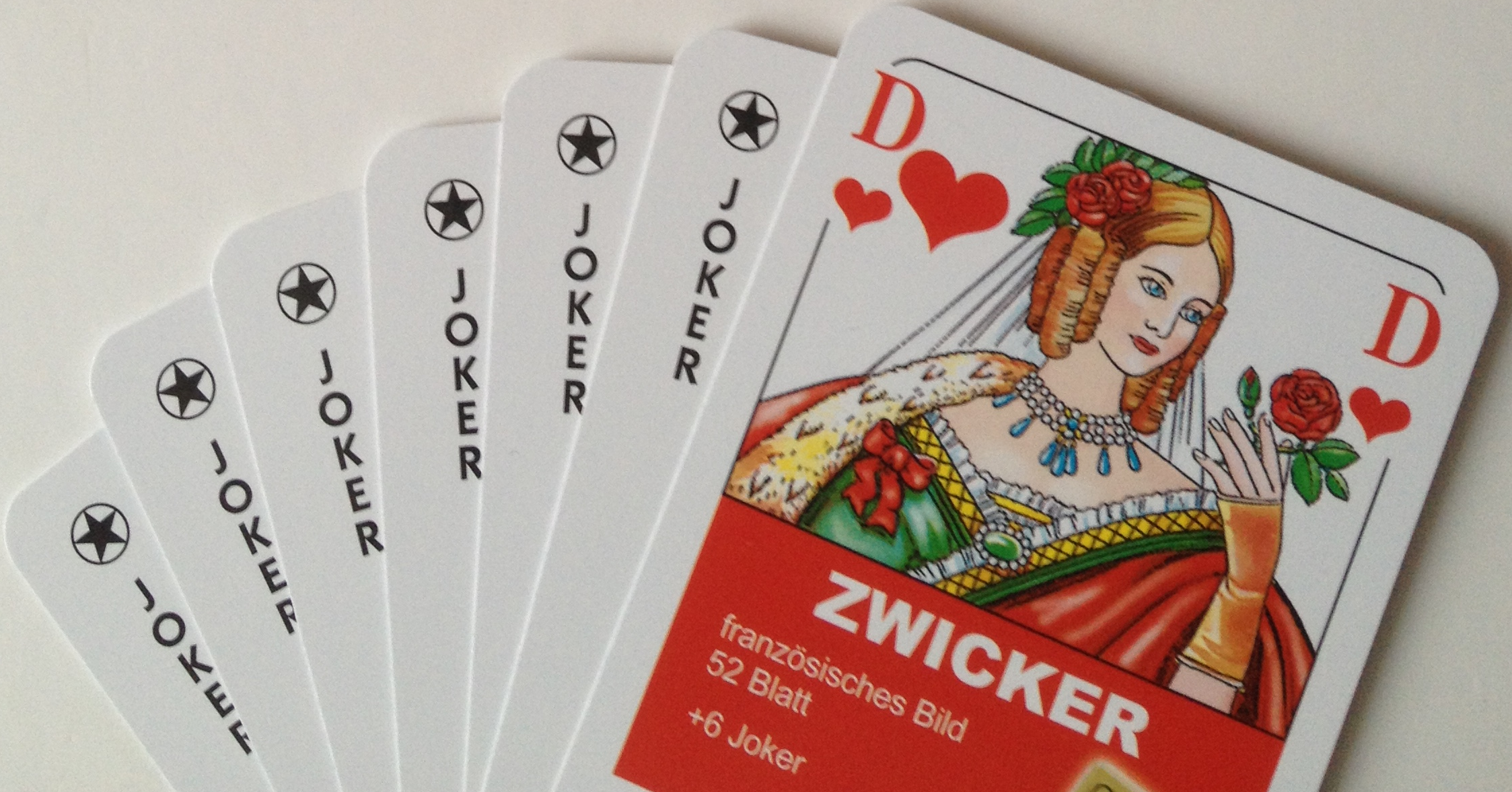 Photo of a Zwicker deck. Zwicker or Zwickern is a German card game that can use up to 6 jokers. Decks typically use the French-suited North-German or Berlin pattern. Nürnberger-Spielkarten-Verlag (NSV) is the last remaining manufacturer of these decks.